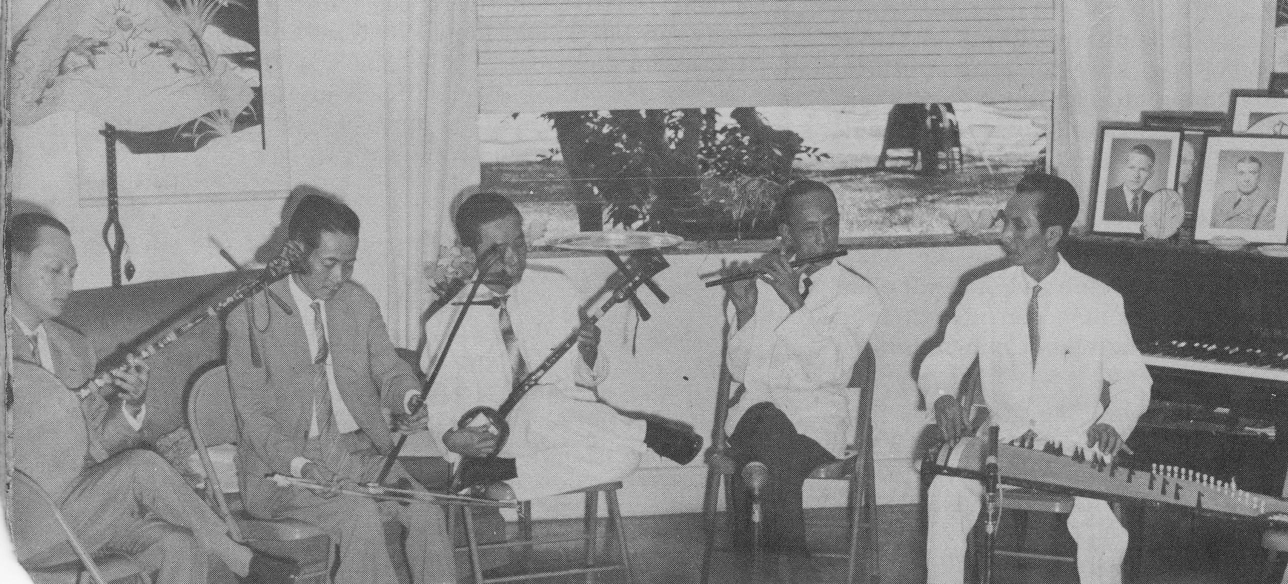 Vietnamese musical ensemble consisting of the moon lute (don kim), two-string fiddle (don co), three-string lute (don tam), transverse flute (sao), and 16-string zither (don tranh).